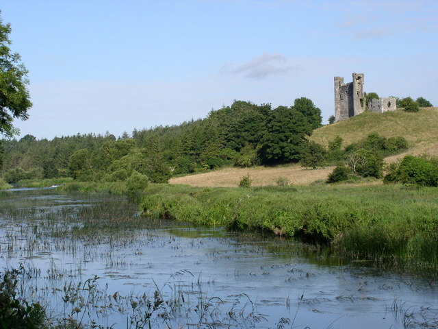 Dunmoe Castle Dunmoe Castle on the north side of the River Boyne between Navan and Slane, Co. Meath. One-time home of the D'Arcy family. Destroyed by Fire in the late 1700's.